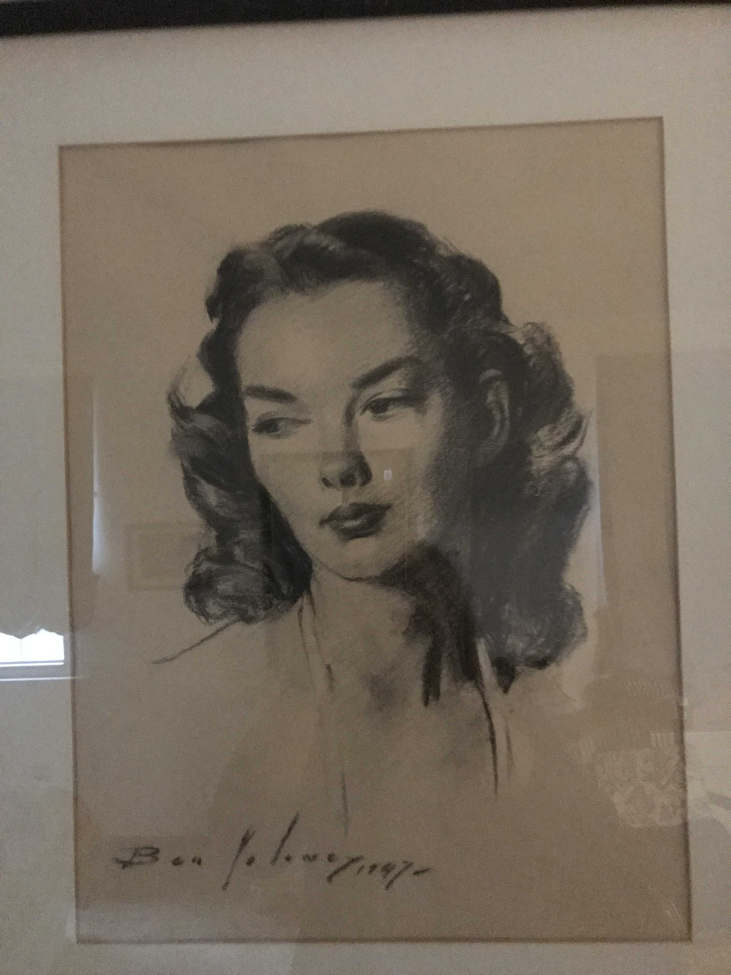 1947 drawing of Reva Veis, niece of Ben Solowey's wife Rae Landis